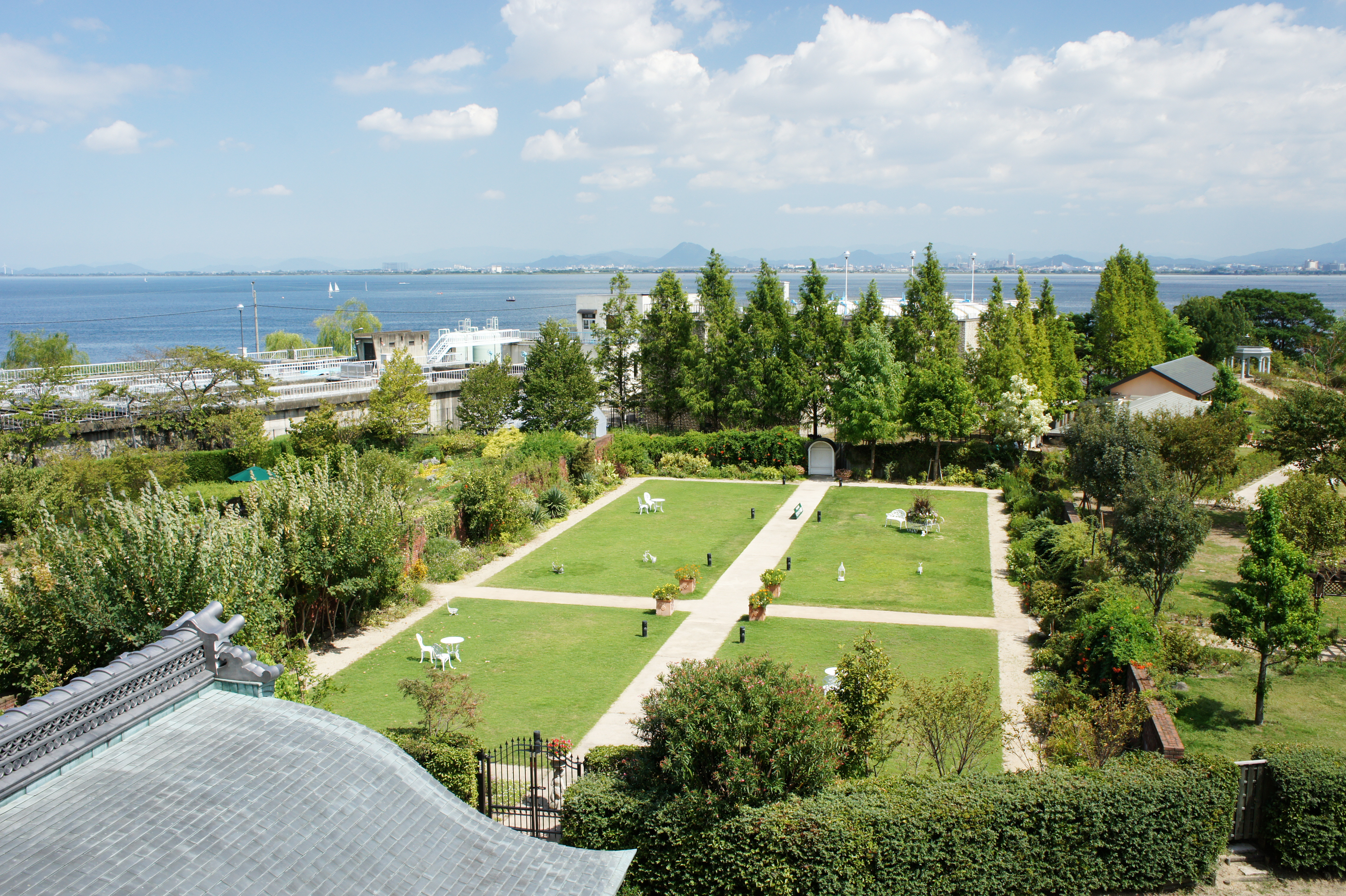 Biwako Otsukan English Garden of Yanagasaki Lakeside Park in Otsu, Shiga prefecture, Japan.